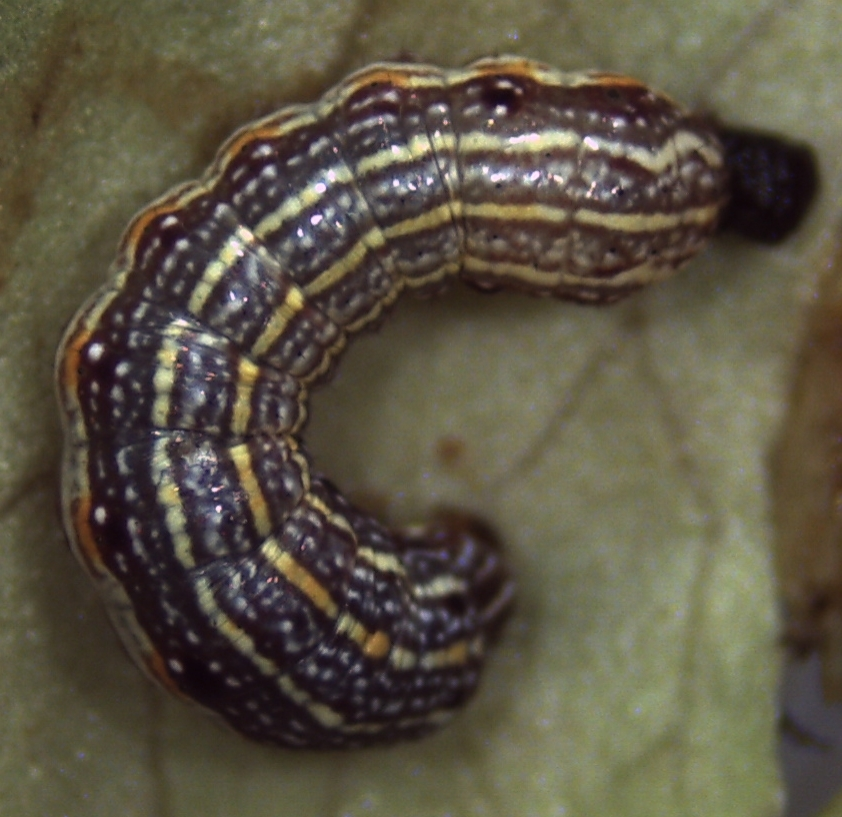 Lily Caterpillar (Spodoptera picta). Species of insect.